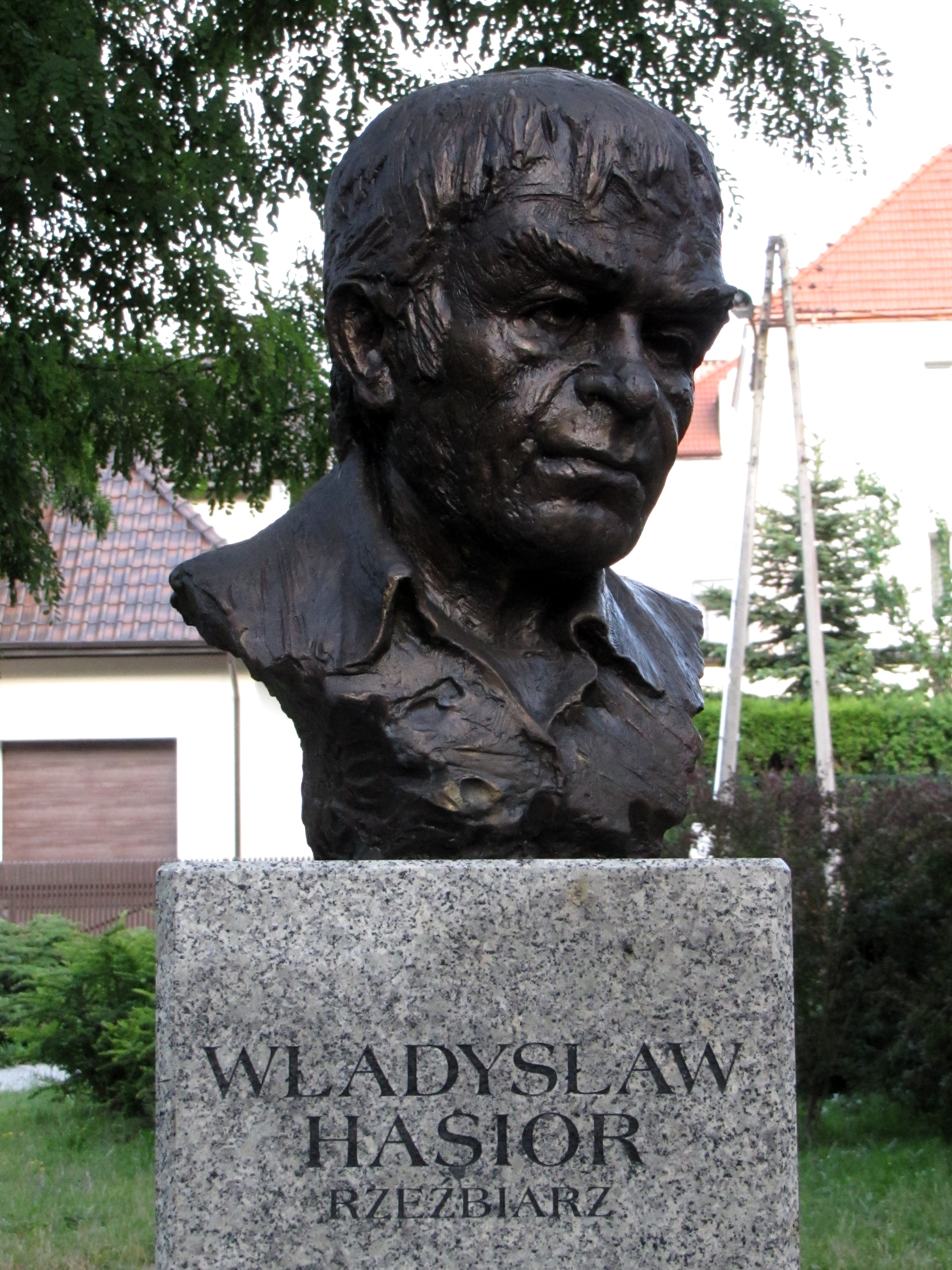 Bust of Władysław Hasior in Celebrity Alley in Kielce (Poland)